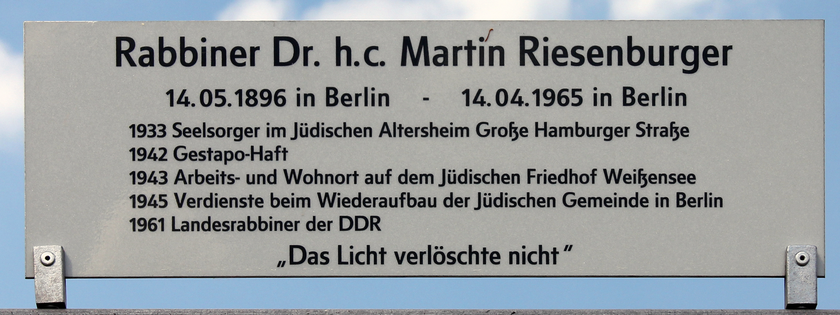 Memorial plaque, Martin Riesenburger, Martin-Riesenburger-Straße 1, Berlin-Hellersdorf, Deutschland